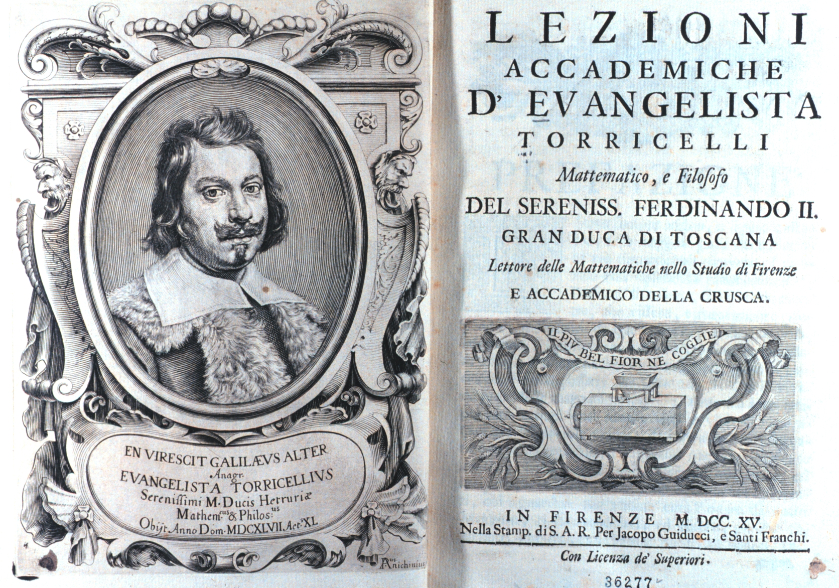 Frontispiece and title page to "Lezioni accademiche d'Evangelista Torricelli ....", published in 1715. Library Call Number Q155 .T69 1715.